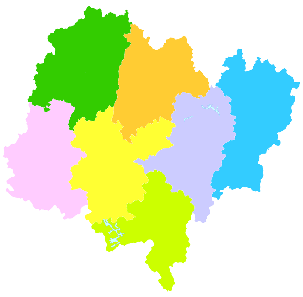 administrative division of Longyan City, Fujian, China